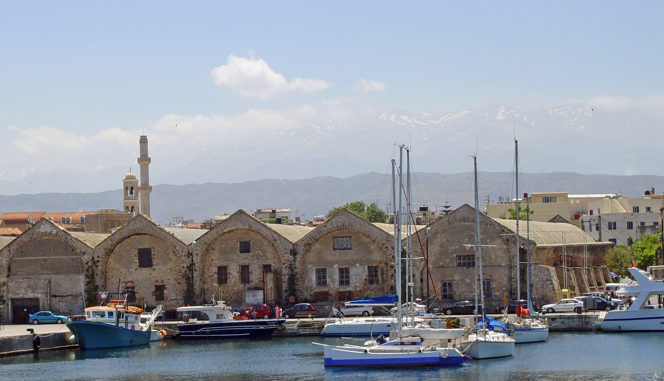 Greece, Crete, Hania, Harbor with storage (Neoria), church with minarett, mountains